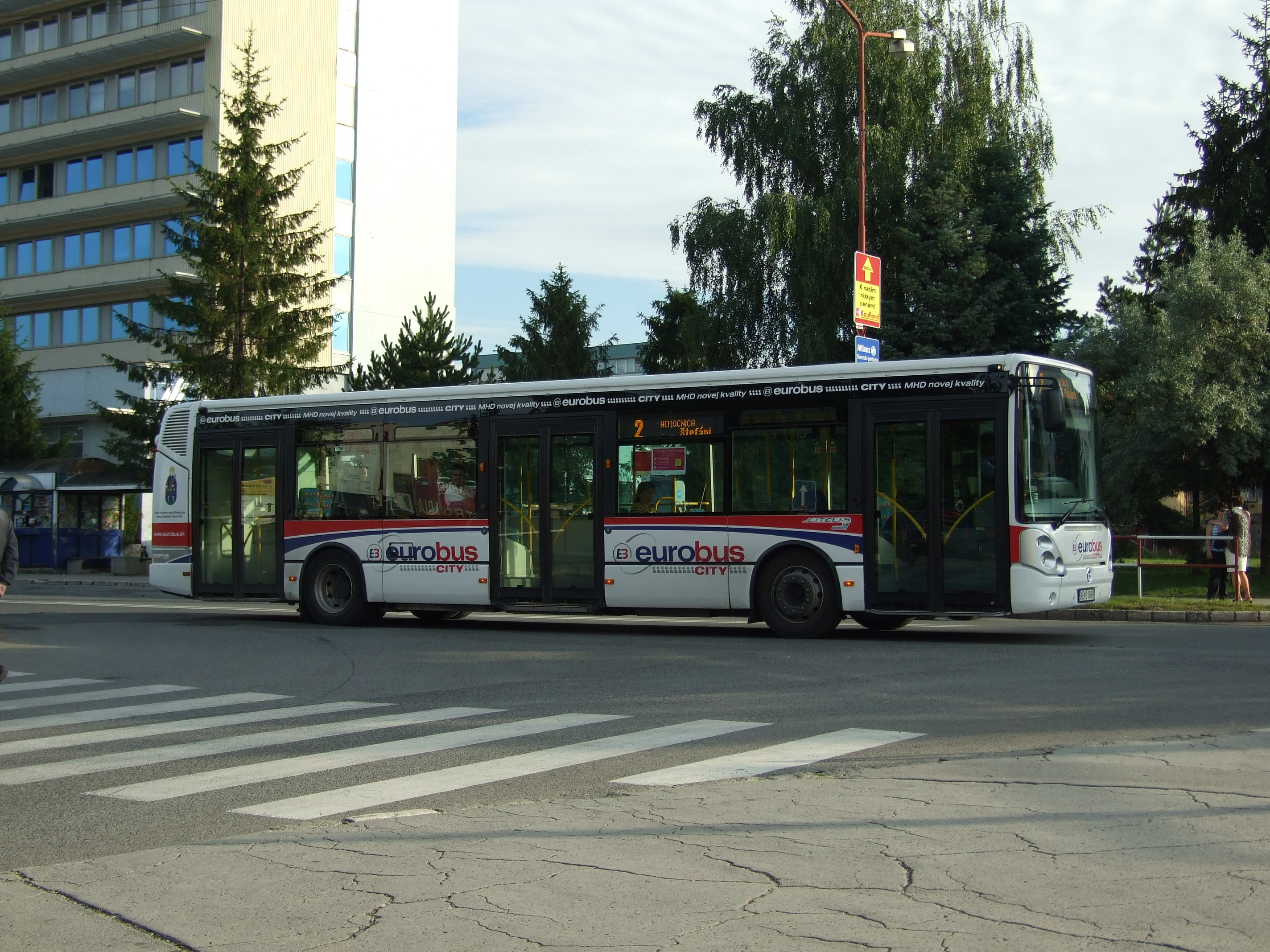 Bus service in Spišská Nová Ves, Košice Region, SKhelp